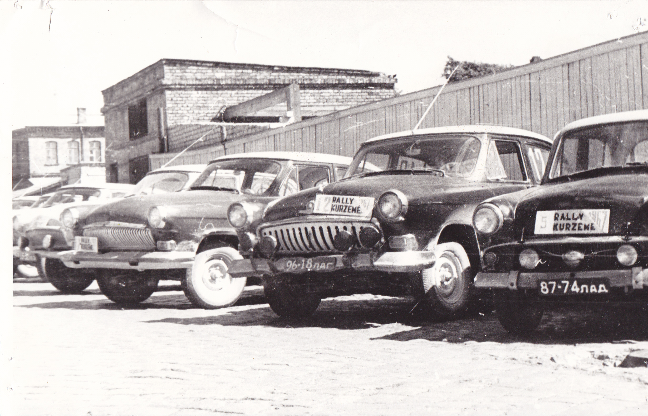 Pirmā rallija "Kurzeme" dalībnieki 1965. gadā